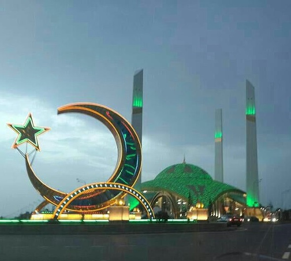 Mosque in the Argun city